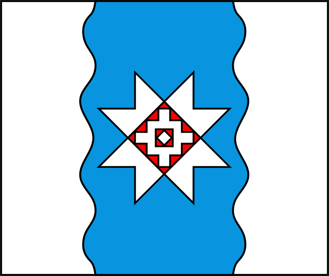 Flag of Muhu Commune